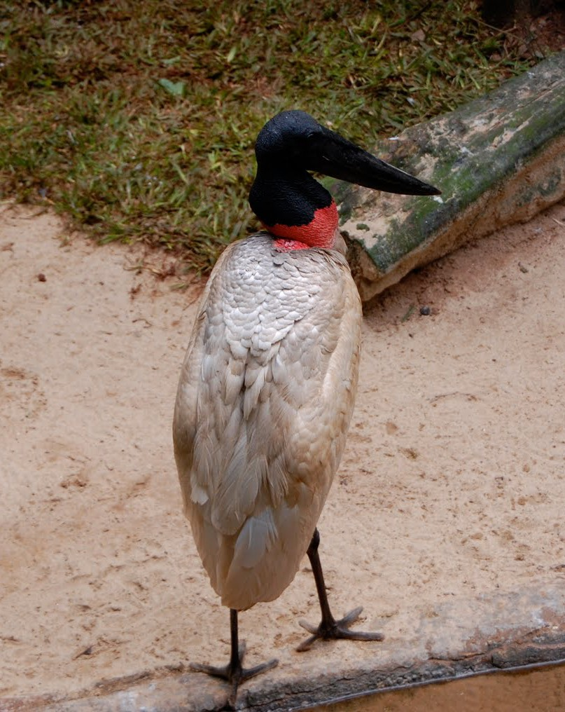 A Jabiru at Parque das Aves, Foz do Iguaçu, Brazil.